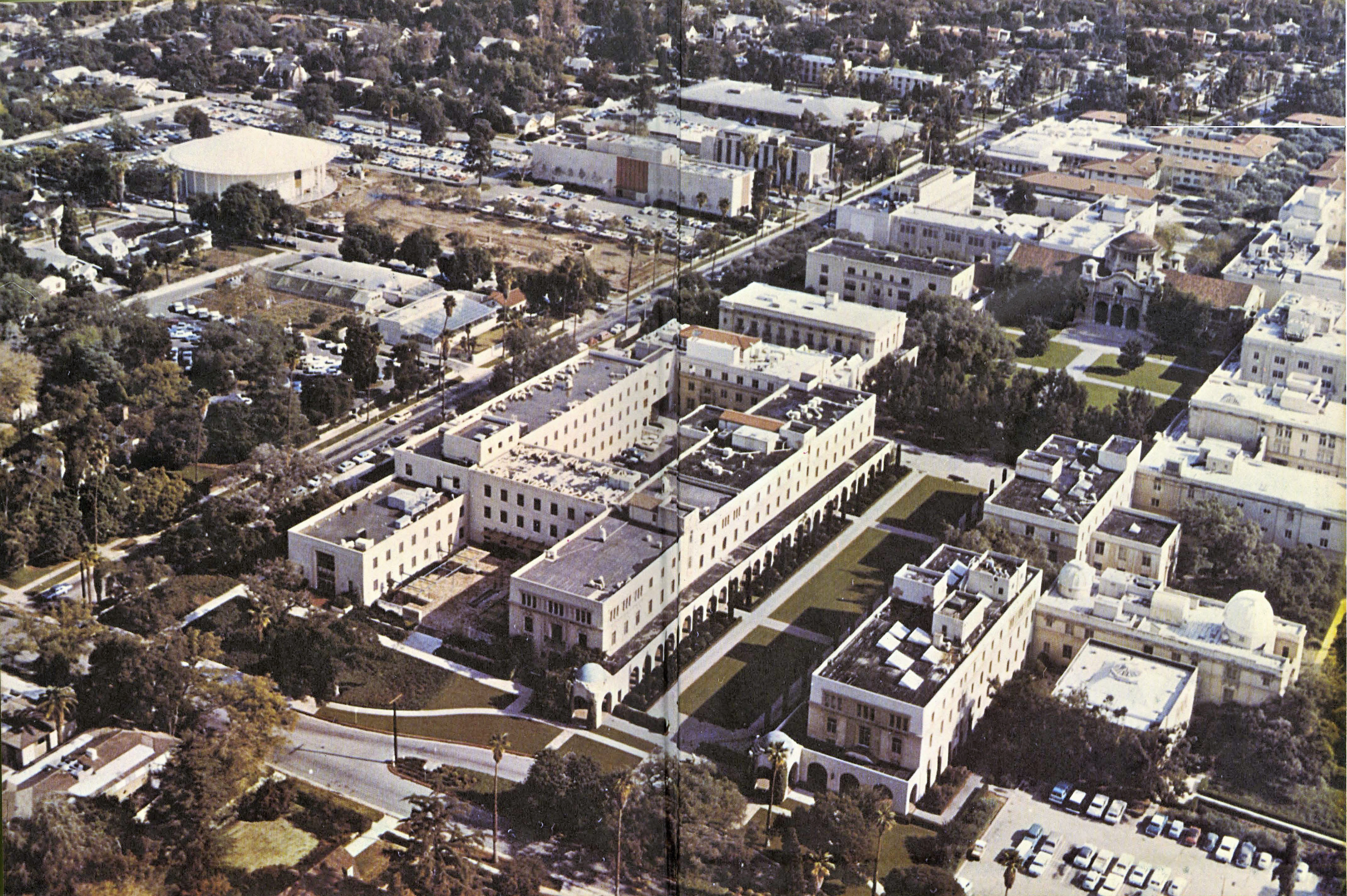 Aerial view ofthe California Institute of Technology